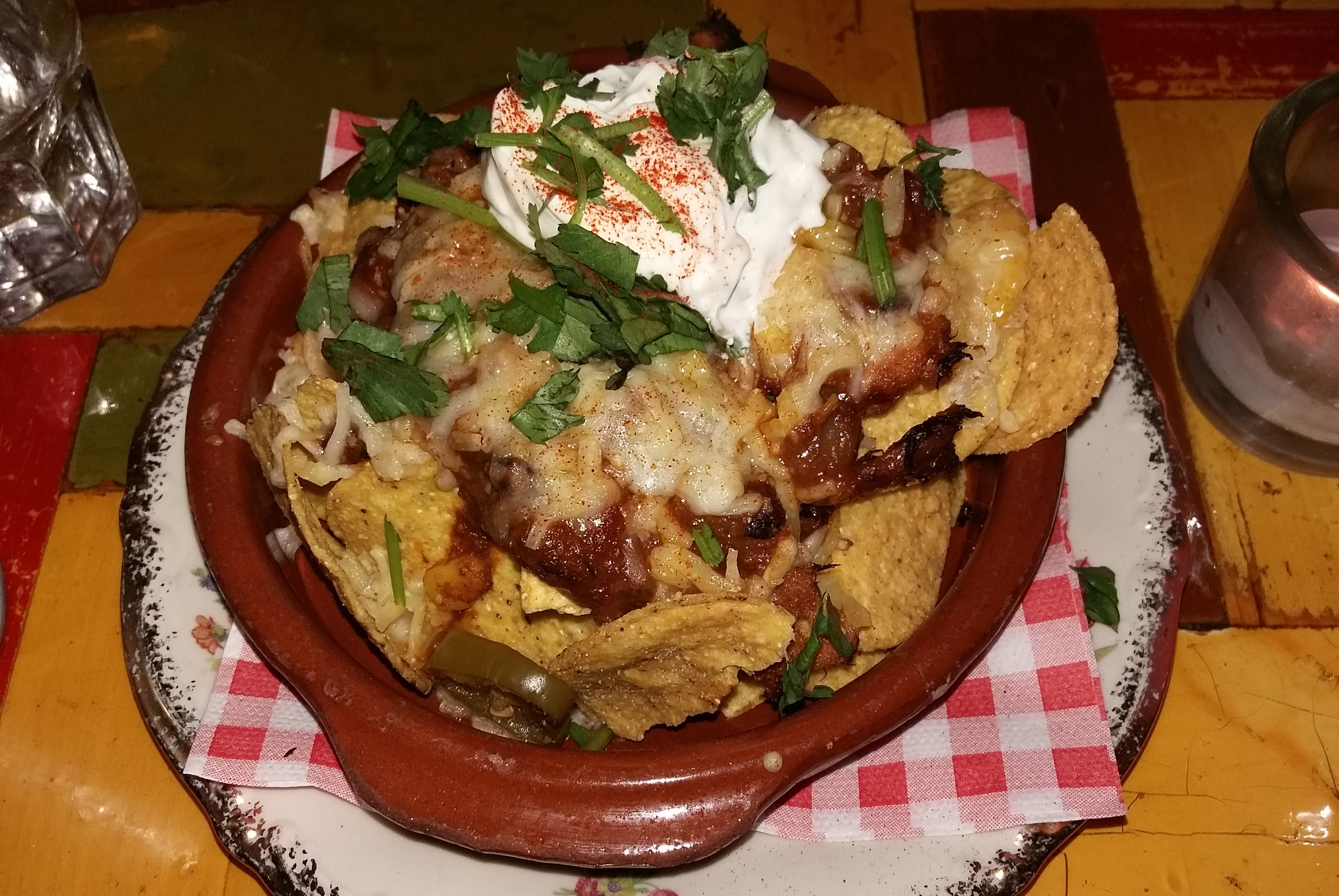 A bowl of nachos with beef